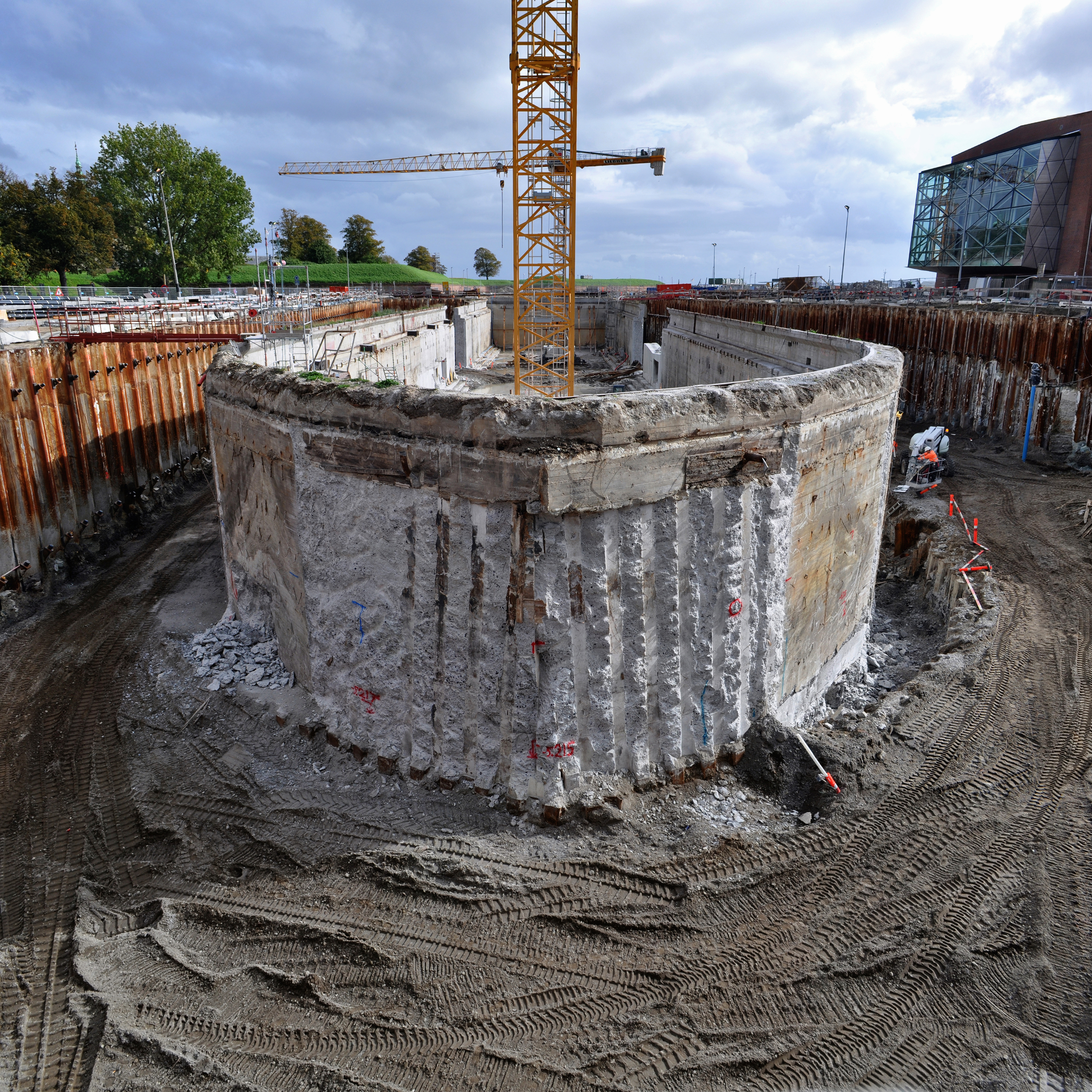 Contruction work on the new Danish Maritime Museum in Helsingør, Denmark, designed by Bjarke Ingels Group